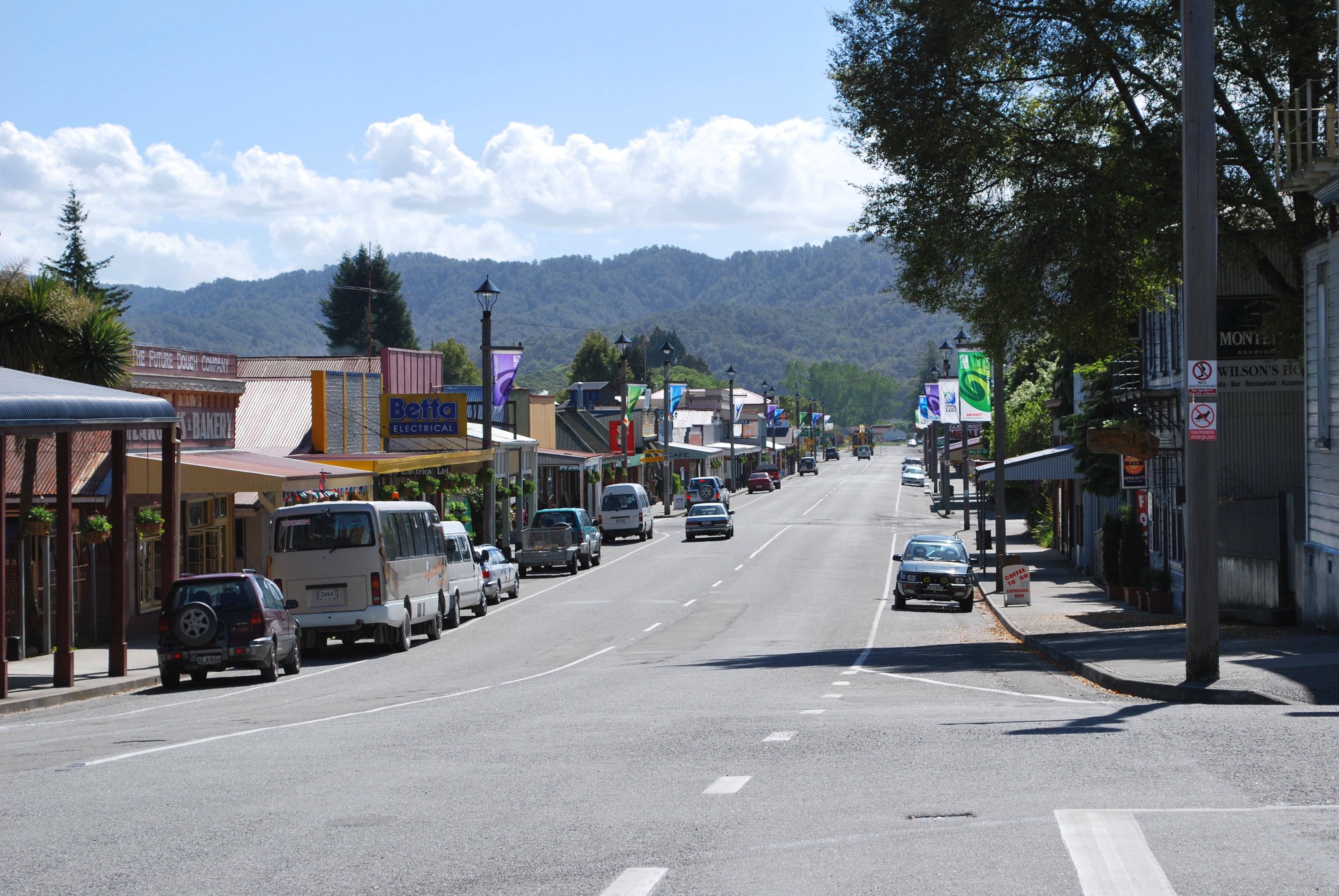 Broadway (New Zealand State Highway 7), the main street of Reefton, New Zealand